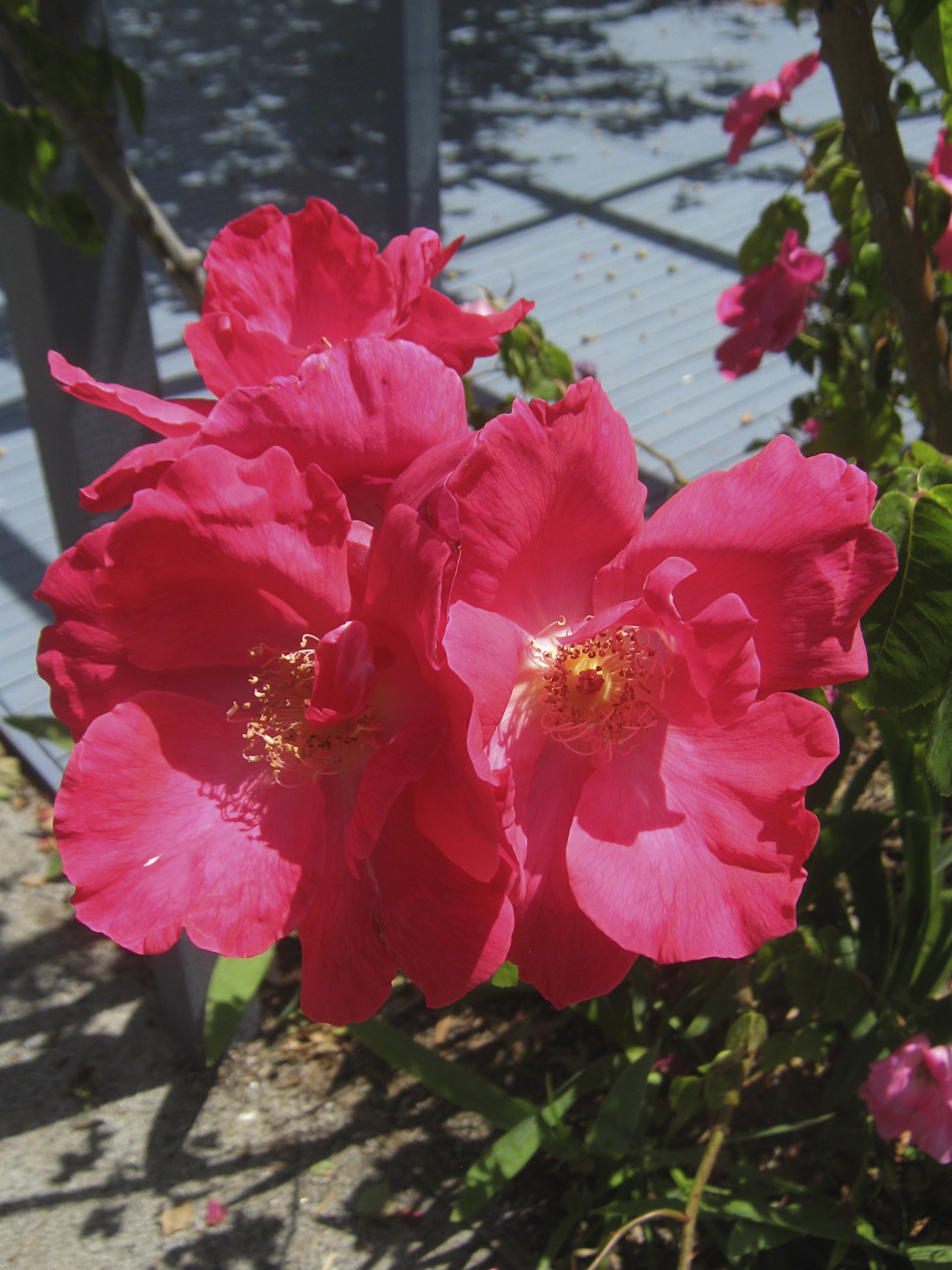 Rose 'Nancy Hayward' Hybrid Tea climber by Alister Clark 1937